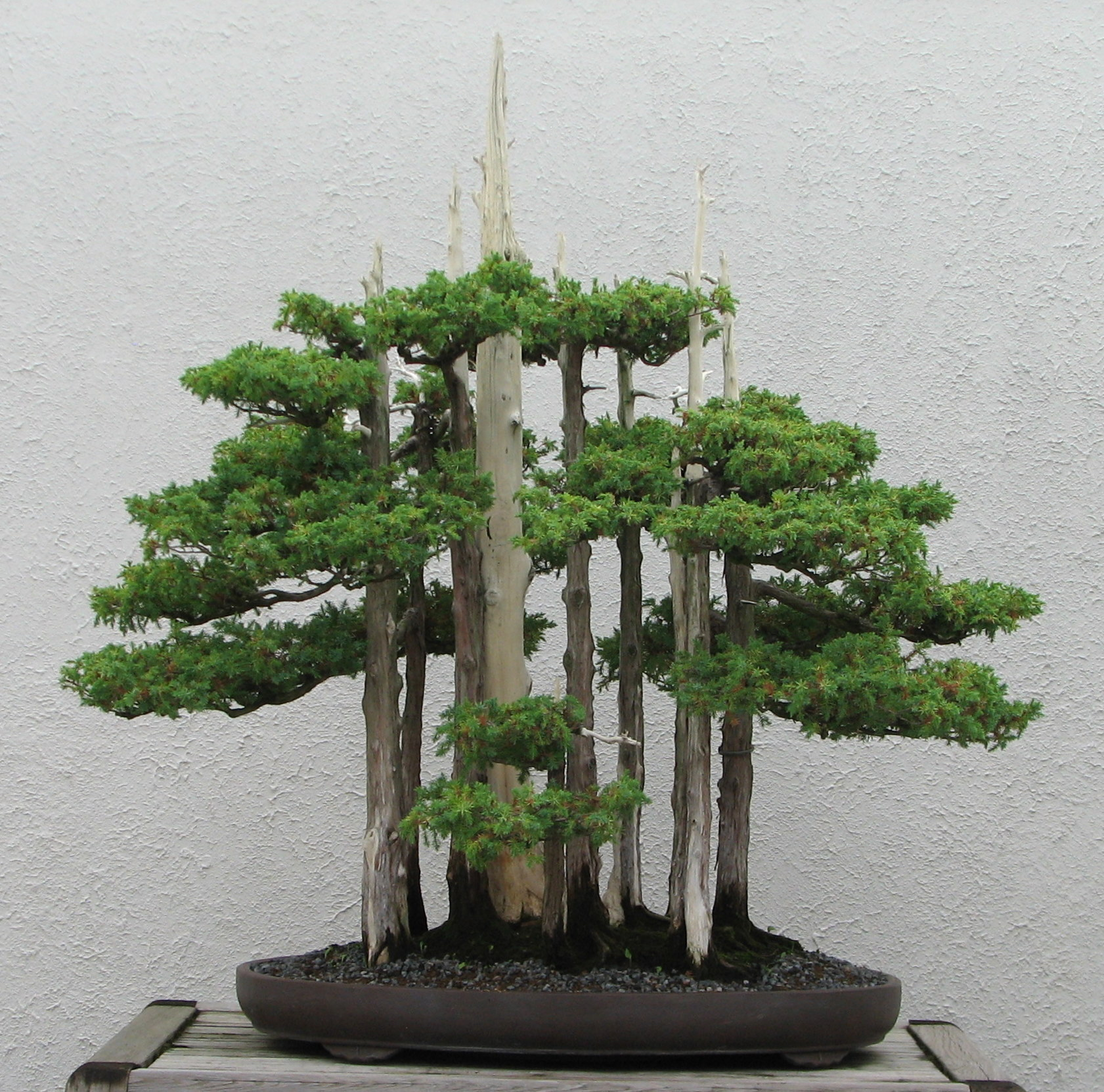 John Naka's famous bonsai masterpiece Goshin, on display at the National Bonsai & Penjing Museum of the National Arboretum in Washington, DC. It consists of 11 Foemina juniper trees (Juniperus chinensis 'Foemina'), representing Naka's 11 grandchildren. In this photo, the "back" of the bonsai is facing outward.